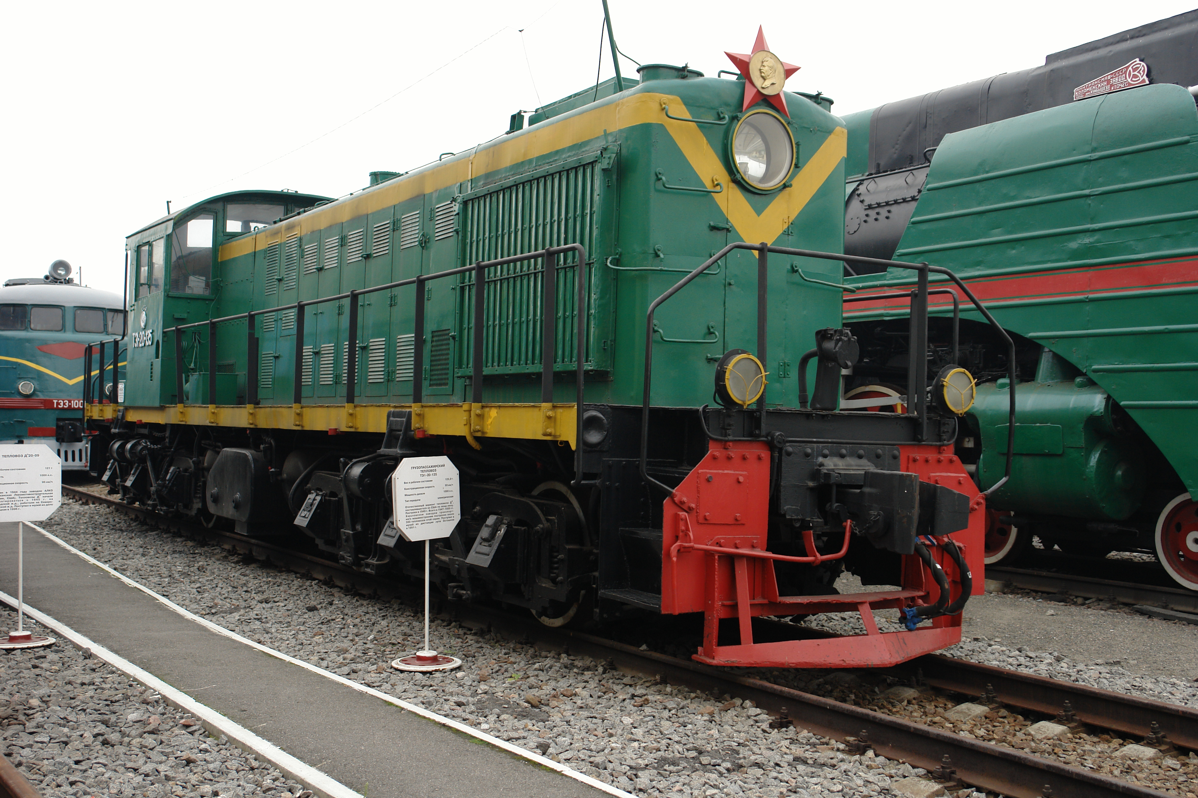 Freight and passenger diesel locomotive TE1-20-135